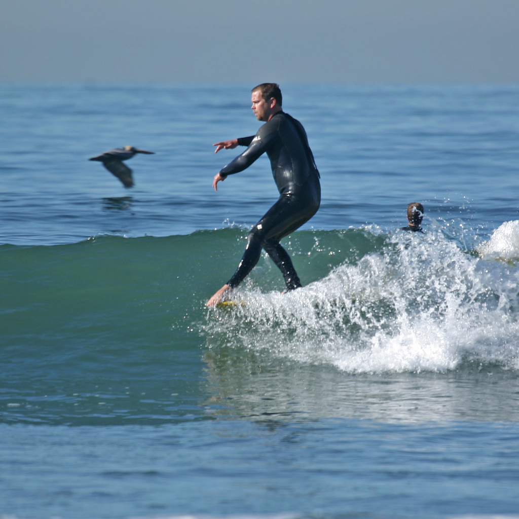 Surfing at Tourmaline Pacific Beach California January 2008